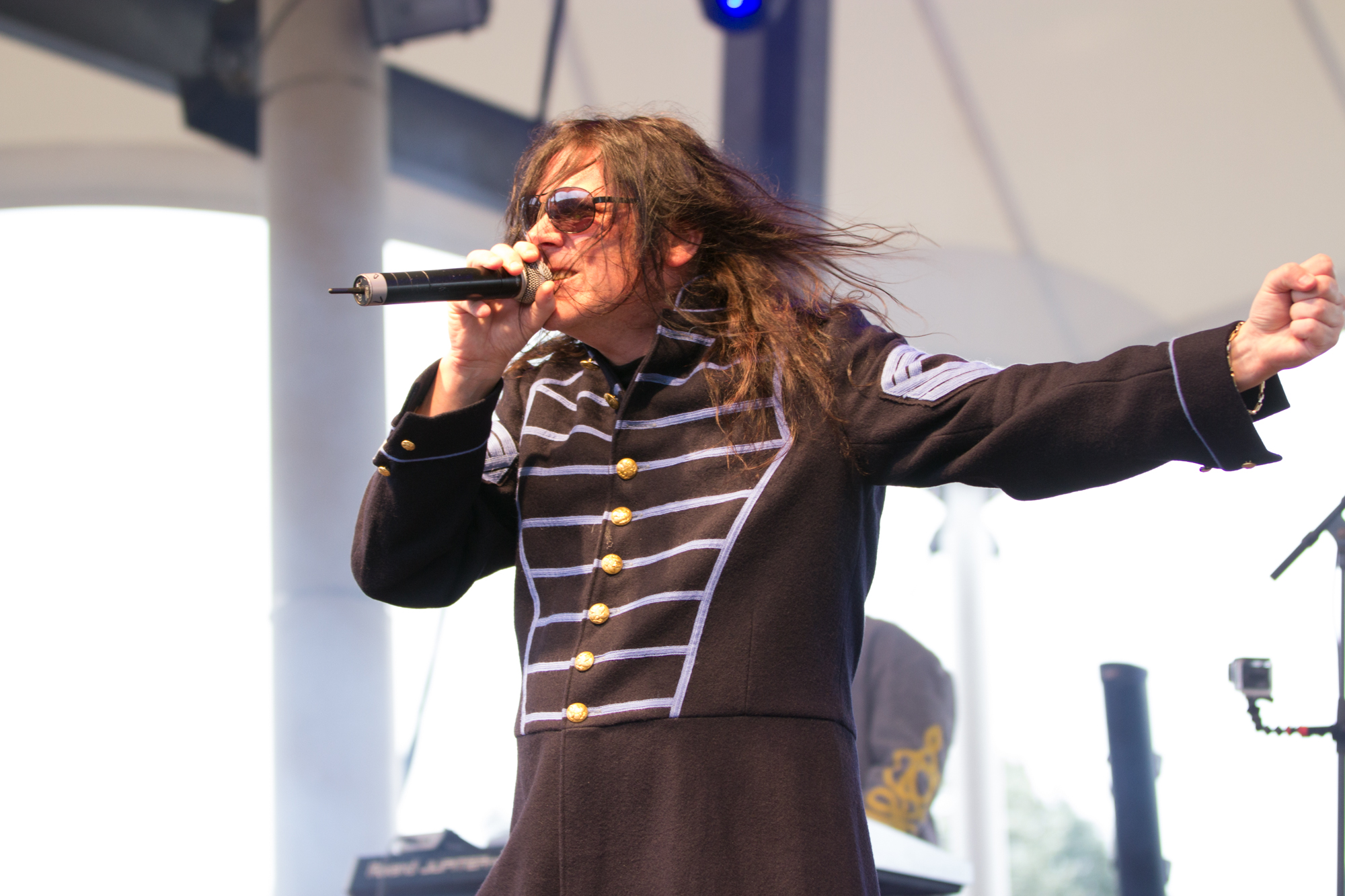 Civil War at Noch ein Bier Fest 2015 (Amphitheater, Gelsenkirchen, North-Rhine-Westphalia, Germany) on 25th July 2015